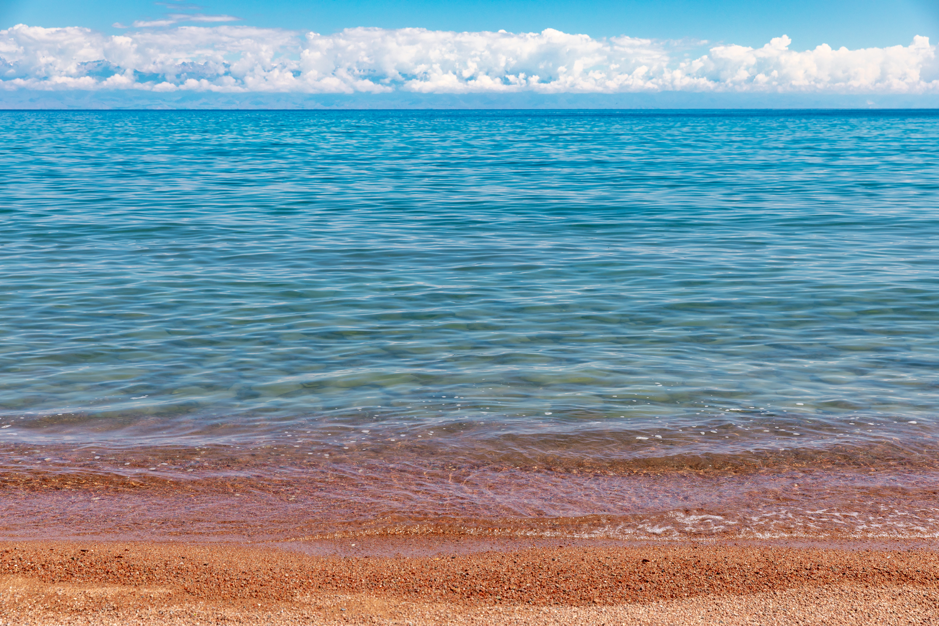 The southern shore Issyk-Kul (Russian: Иссык-Куль, Issyk-Kulj) is an endorheic lake in the northern Tian Shan mountains in eastern Kyrgyzstan. It is the tenth largest lake in the world by volume (though not in surface area), and the second largest saline lake after the Caspian Sea. Issyk-Kul means "warm lake" in the Kyrgyz language; although it is surrounded by snow-capped peaks, it never freezes. Issyk-Kul Lake is 182 kilometres (113 mi) long, up to 60 kilometres (37 mi) wide, and its area is 6,236 square kilometres (2,408 sq mi). It is the second-largest mountain lake in the world behind Lake Titicaca in South America. It is at an altitude of 1,607 metres (5,272 ft), and reaches 668 metres (2,192 ft) in depth. About 118 rivers and streams flow into the lake. (Wikipedia)